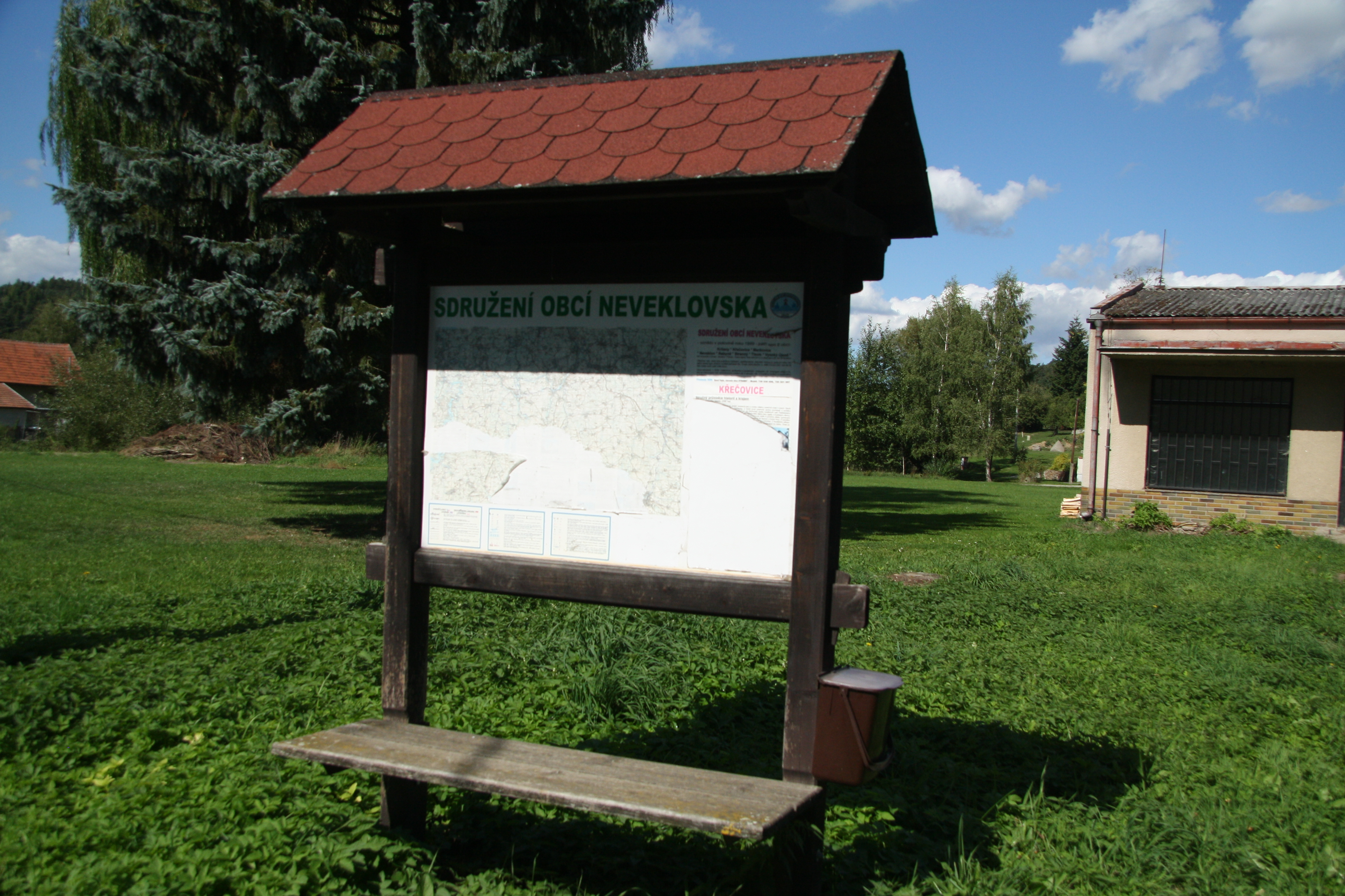 Infopanel of Sdružení obcí Neveklovska in Hořetice, Křečovice, Benešov District.